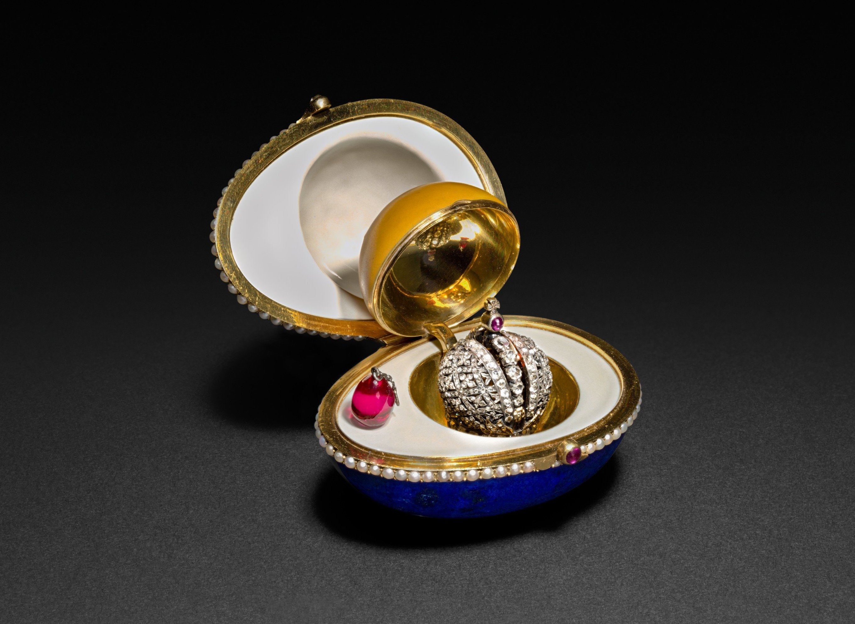 Peter Carl Fabergé was the crown jeweler to the imperial court of Russia at the end of the 19th century. He created his celebrated Easter eggs, symbols of rebirth and renewal, as gifts for the Russian imperial family. Made of gold, lapis lazuli, pearls, diamonds, and rubies, this exquisite egg conceals a delightful surprise within. When opened, it reveals an imperial crown.